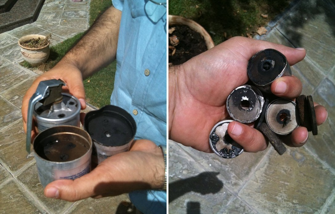 Comparation between the type of tear gas used on Nabeel Rajab's house.